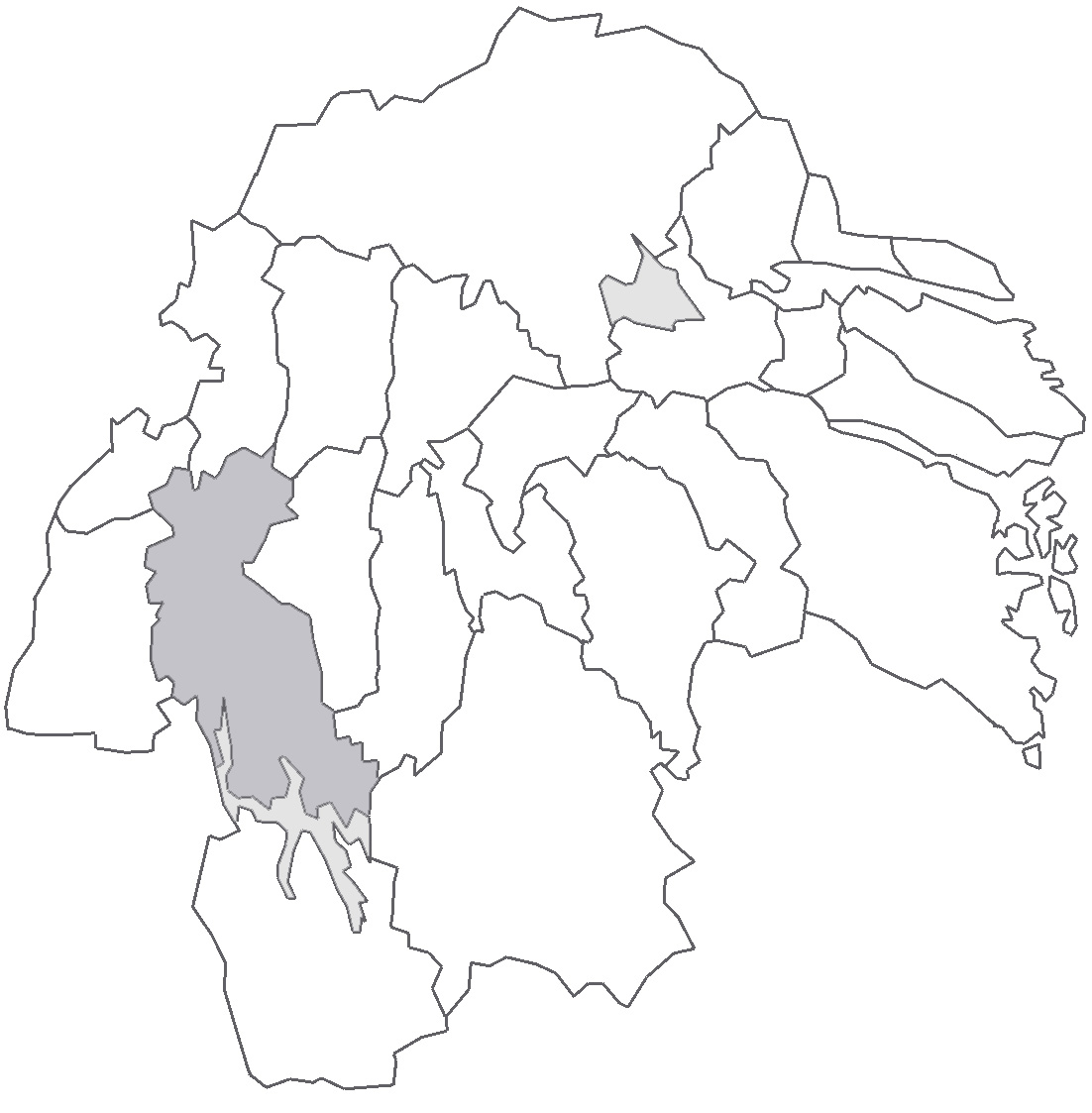 Map describing the location of Göstring Hundred in Östergötland County, Sweden.